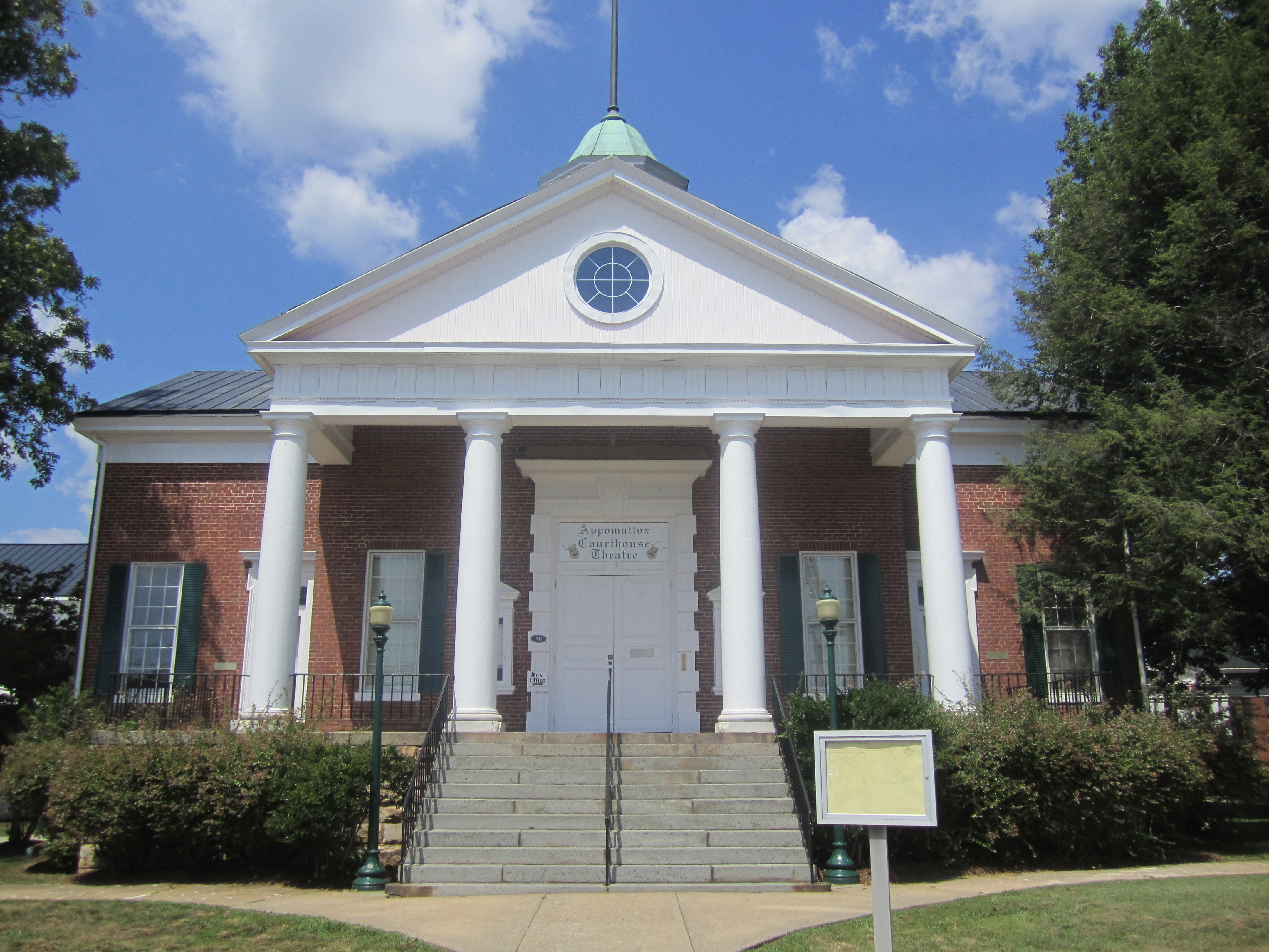 I took photo with Canon camera at Appomattox, Virginia.